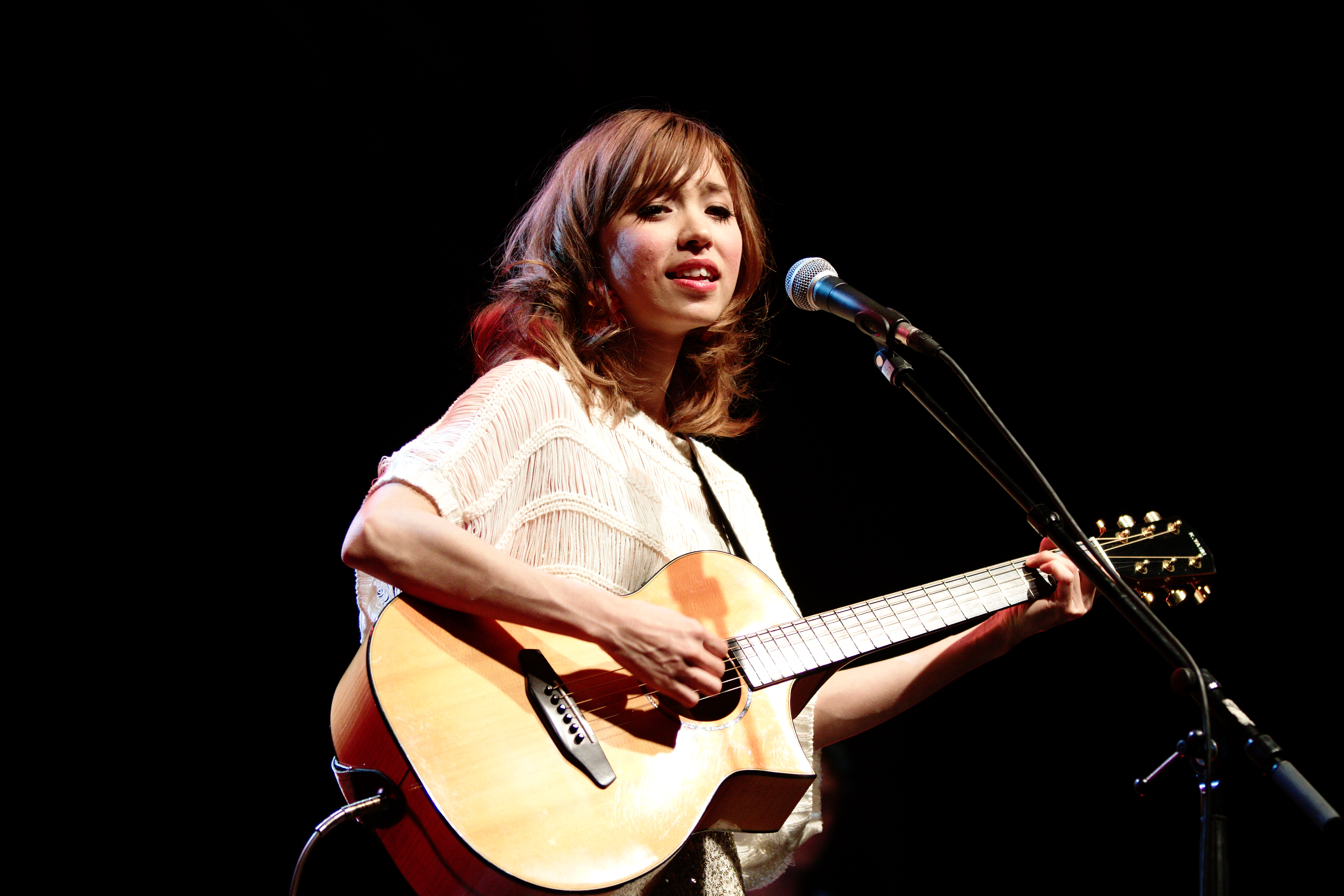 Shanti Snyder live at Japan Expo 2011 (Paris, France)